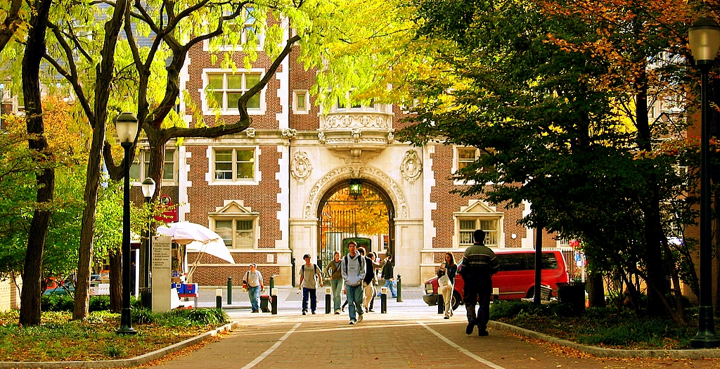 Upper Quad Gate in the fall